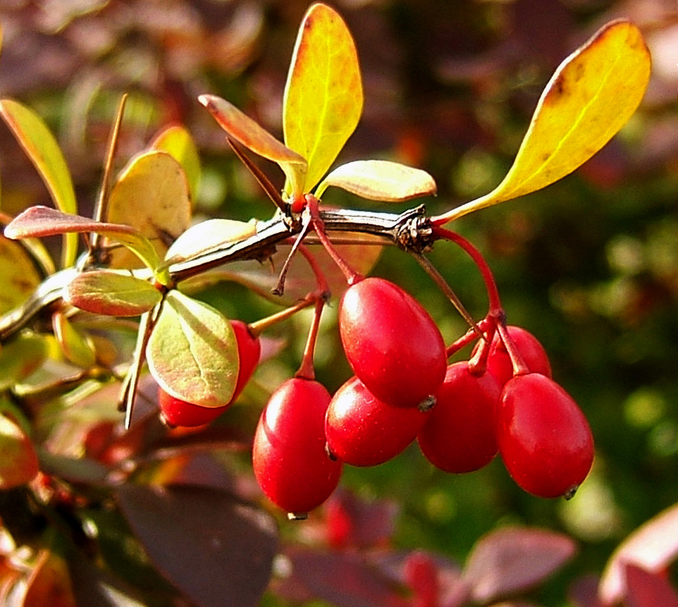 Japanese barberry or Thunberg's Barberry in autumn;; branch with berries